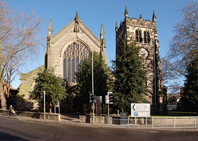 The former St Werburgh's Church The tower of this church dates from 1610. The tower survived flooding in 1698 but a new Queen Anne style church was built, (of which only the chancel now survives), only to be replaced in 1893 by the present building to the designs of Sir Arthur Blomfield RA. Samuel Johnson, the famous man of letters, married Elizabeth Porter here on 9th July 1735. The building now houses an oriental restaurant.